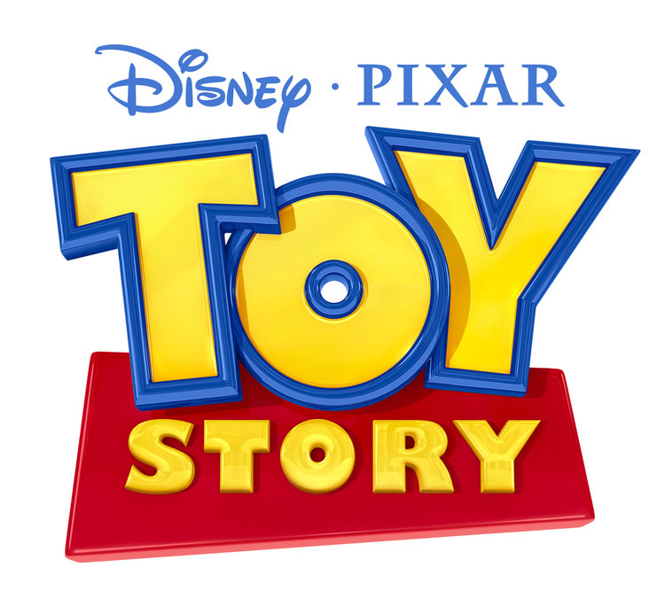 Toy Story logo